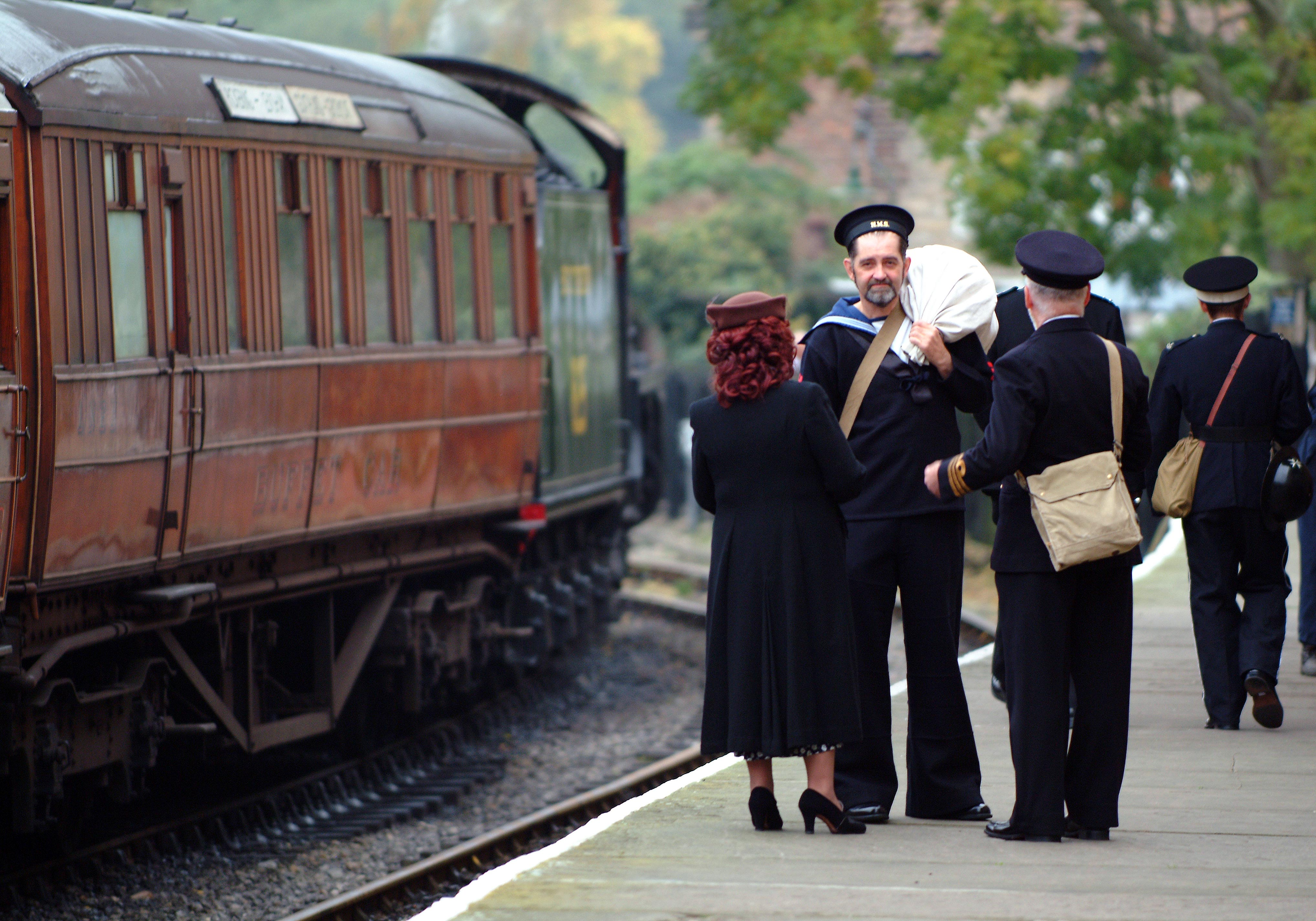 A representation of the World War Two weekend that takes place every year on the North Yorkshire Moors Railway. This photo was taken at Pickering Station.